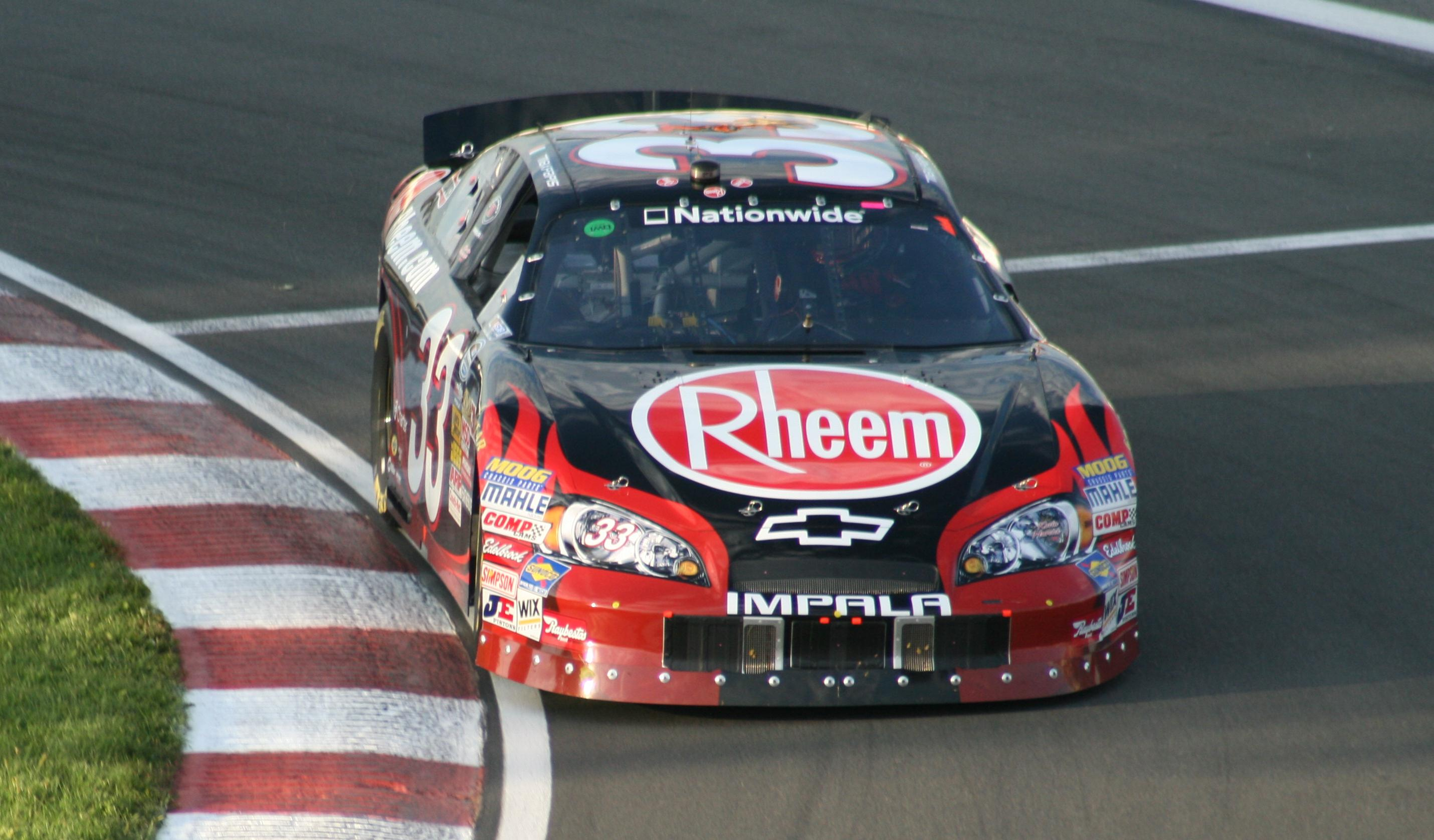 Max Papis in the qualification for the 2010 NAPA Auto Parts 200 at the Circuit Gilles Villeneuve in Montreal.